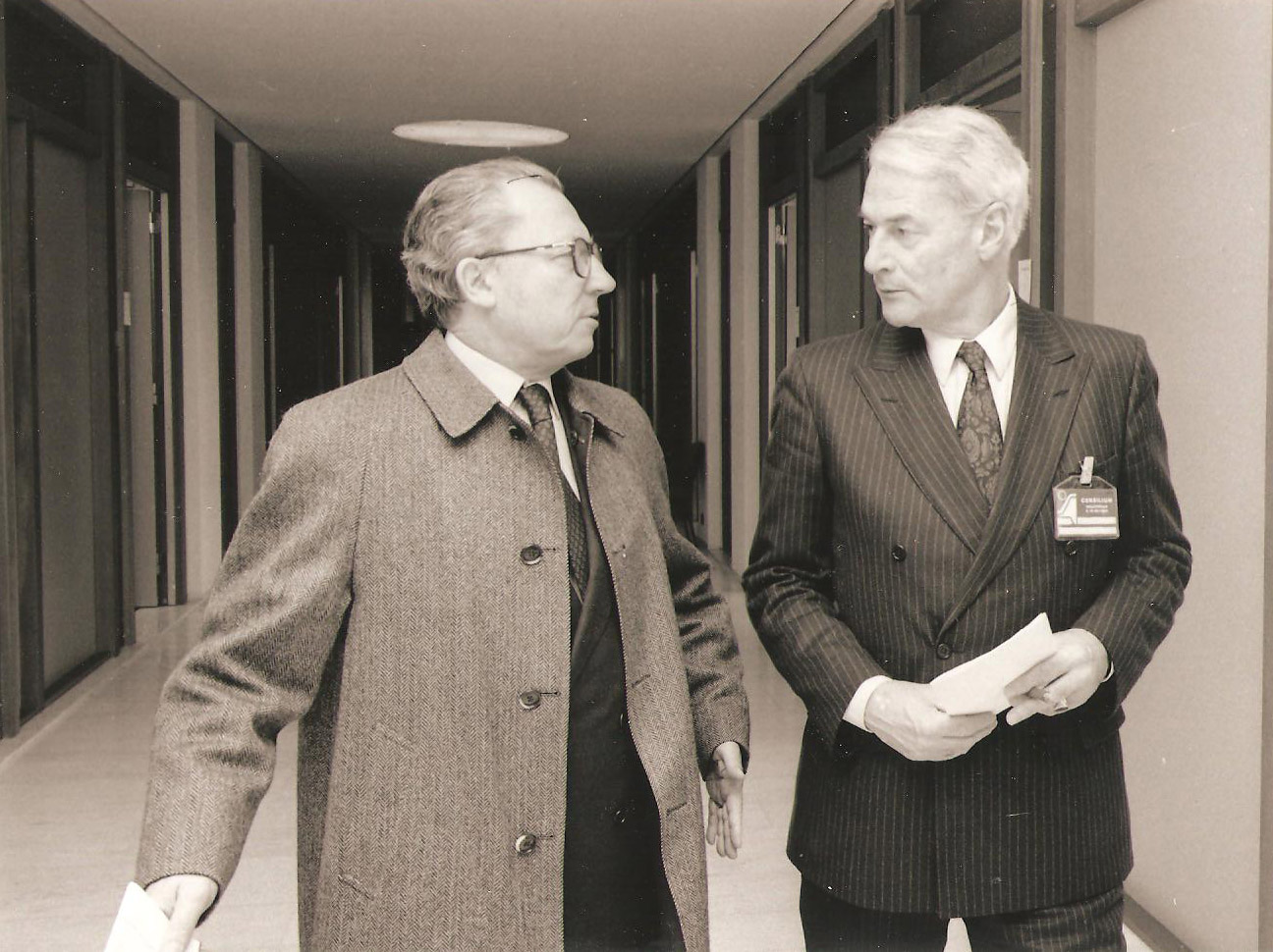 Ronald van Beuge with Jacques Delors